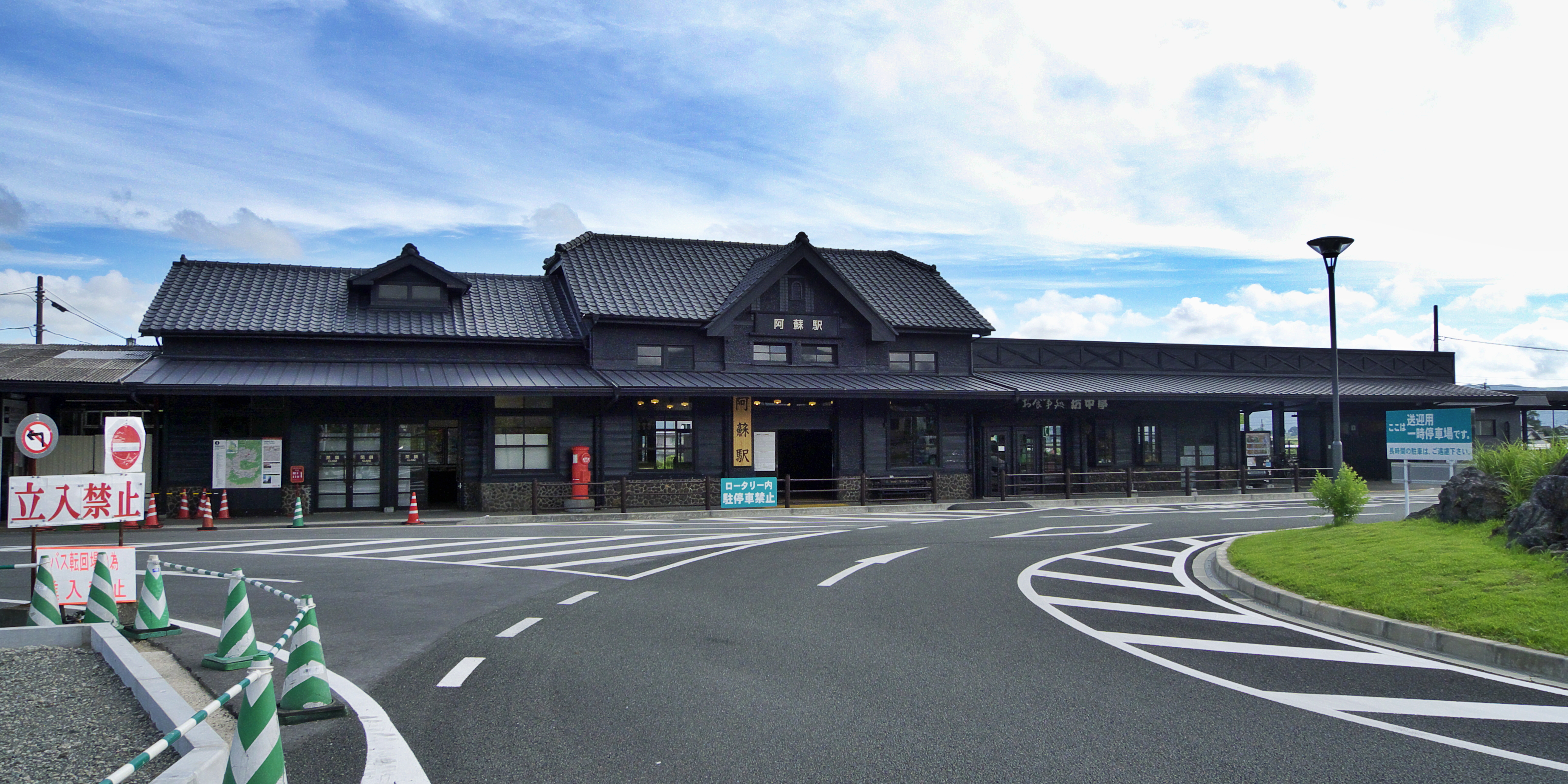 JR Kyushu Aso Station on Hohi Main Line